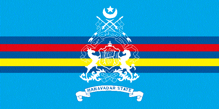 Flag of Bantva-Manavadar (Gujarati: બાંટવામાણાવદર) princely state